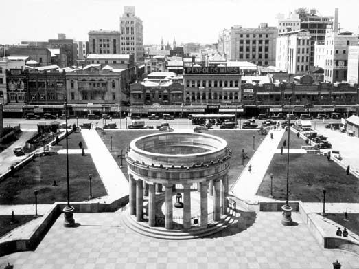 The Shrine and Anzac Square, Adelaide Street, Brisbane.